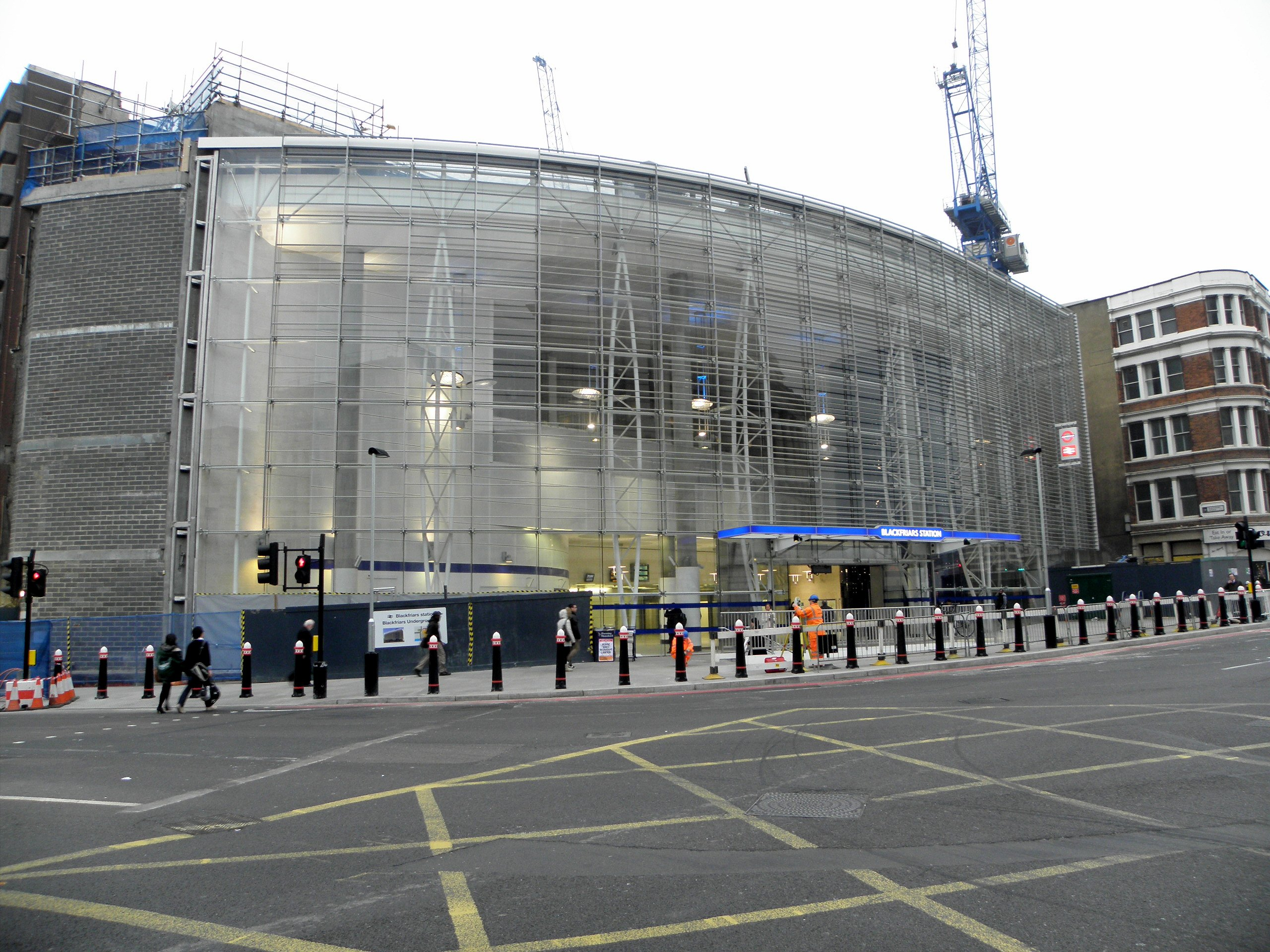 Blackfriars station northern entrance, opened in February 2012